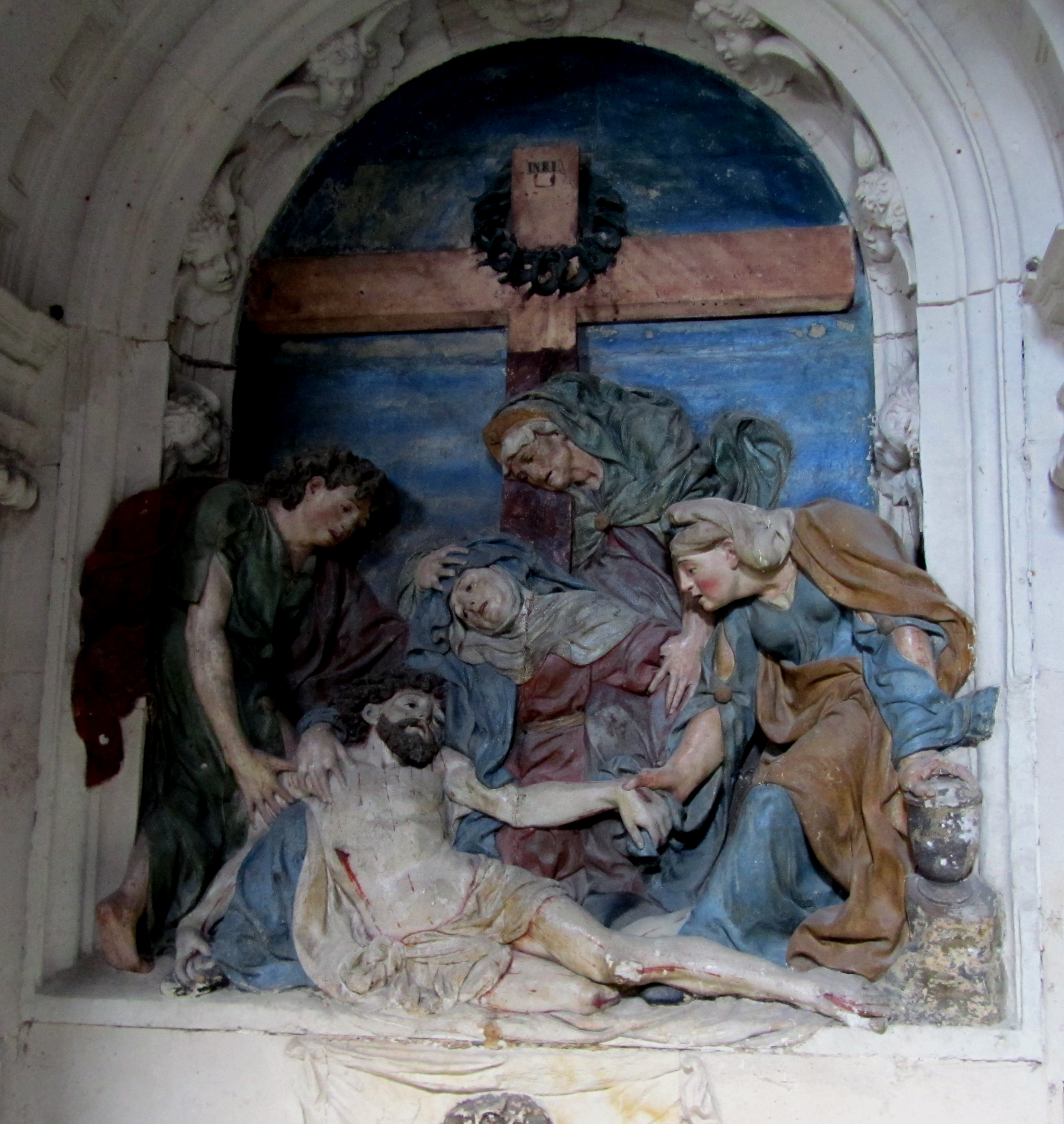 Relieve del Descendimiento realizado por Juan de Juni que forma parte del sepulcro del arcediano Gutierre de Castro conservado en el claustro de la Catedral Vieja de Salamanca